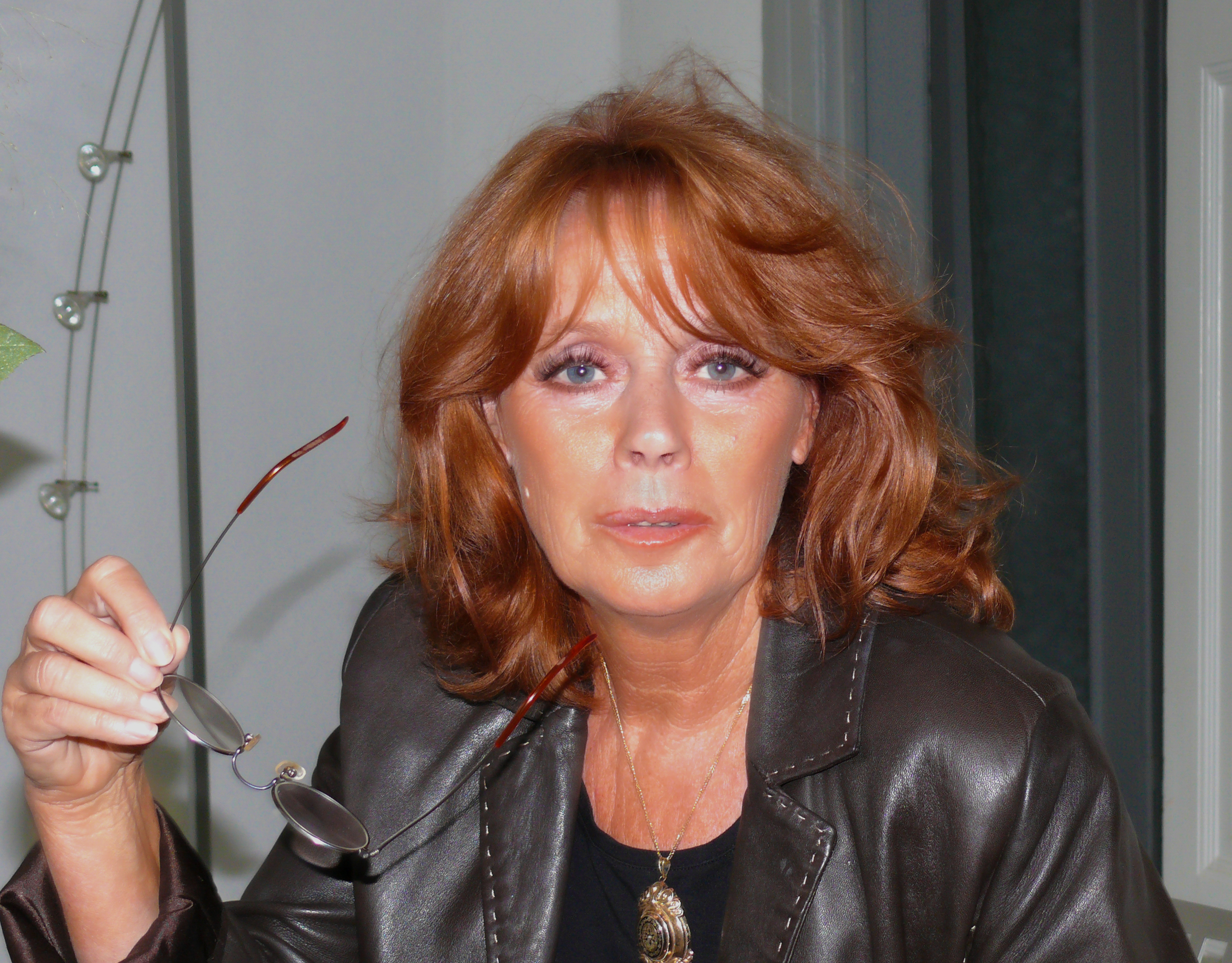 German lyricist Doris Runge at "Weisses Haus" in Cismar